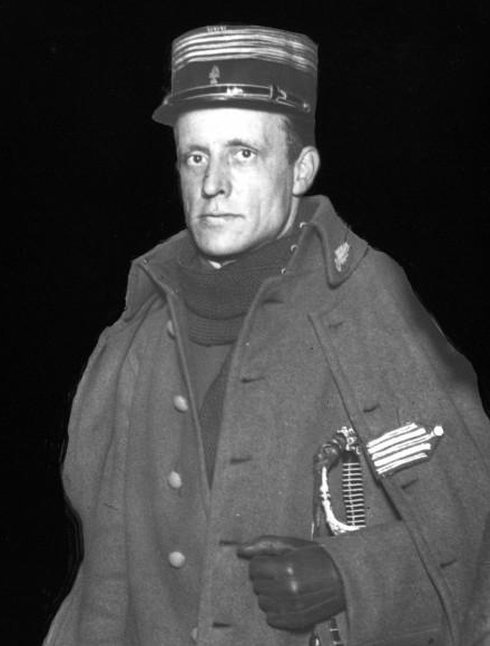 Italian general Giuseppe Garibaldi a.k.a. Peppino Garibaldi (1879-1950)